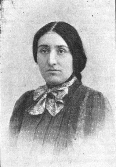 Shushanik Kurghinian (Armenian: Շուշանիկ Կուրղինյան) (August 18, 1876 – November 24, 1927) was an Armenian writer who became a catalyst in the development of socialist and feminist poetry. She gave voice to the voiceless and saw her role as a poet as profoundly political. Her first poem was published in 1899 in Taraz, and in 1900 her first short story appeared in the journal Aghbyur. After founding the first Hunchakian women’s political group in Alexandrapol, Kurghinian fled to Rostov on Don in order to escape arrests of the tsarist regime. Her first volume of poetry, Ringing of the Dawn, was published in 1907, and one of her poems from this volume, "The Eagle's Love," was translated and included in Alice Stone Blackwell’s second anthology Armenian Poems: Rendered into English Verse (1917). After the Russian Revolution, in 1921 she returned to Soviet Armenia where she lived until her death. Throughout her lifetime, Kurghinian cultivated significant relationships with famous members of the Armenian artistic and literary worlds of her time, including Vrtanes Papazian, Avetik Isahakian, Hovhannes Toumanian, and others.